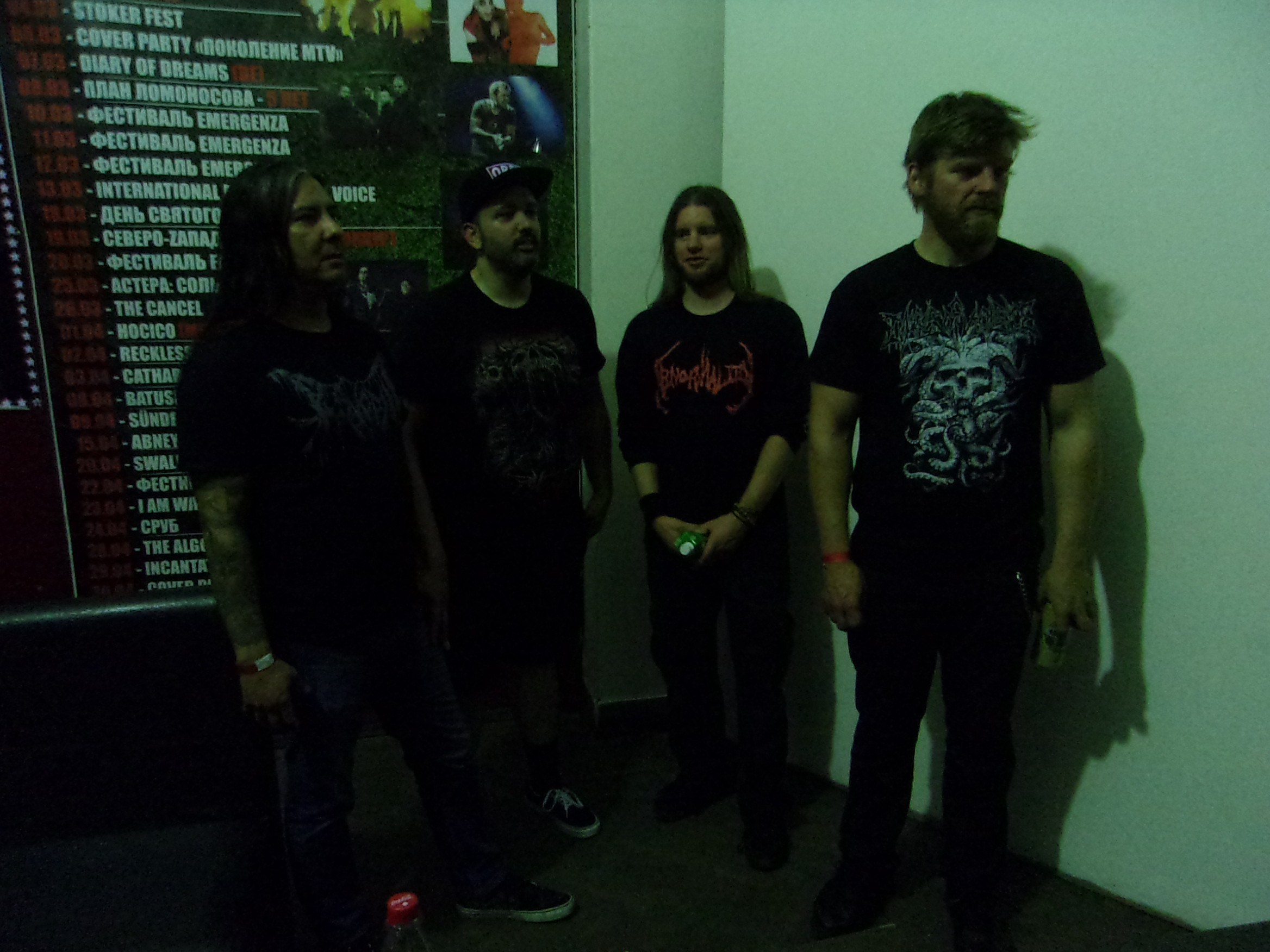 Texas band Devourment communicating with fans after live show in Opera Concert Club, Saint Petersburg. Left to right: Ruben Rosas, Brad Fincher, Dave Spencer, Chris Andrews.